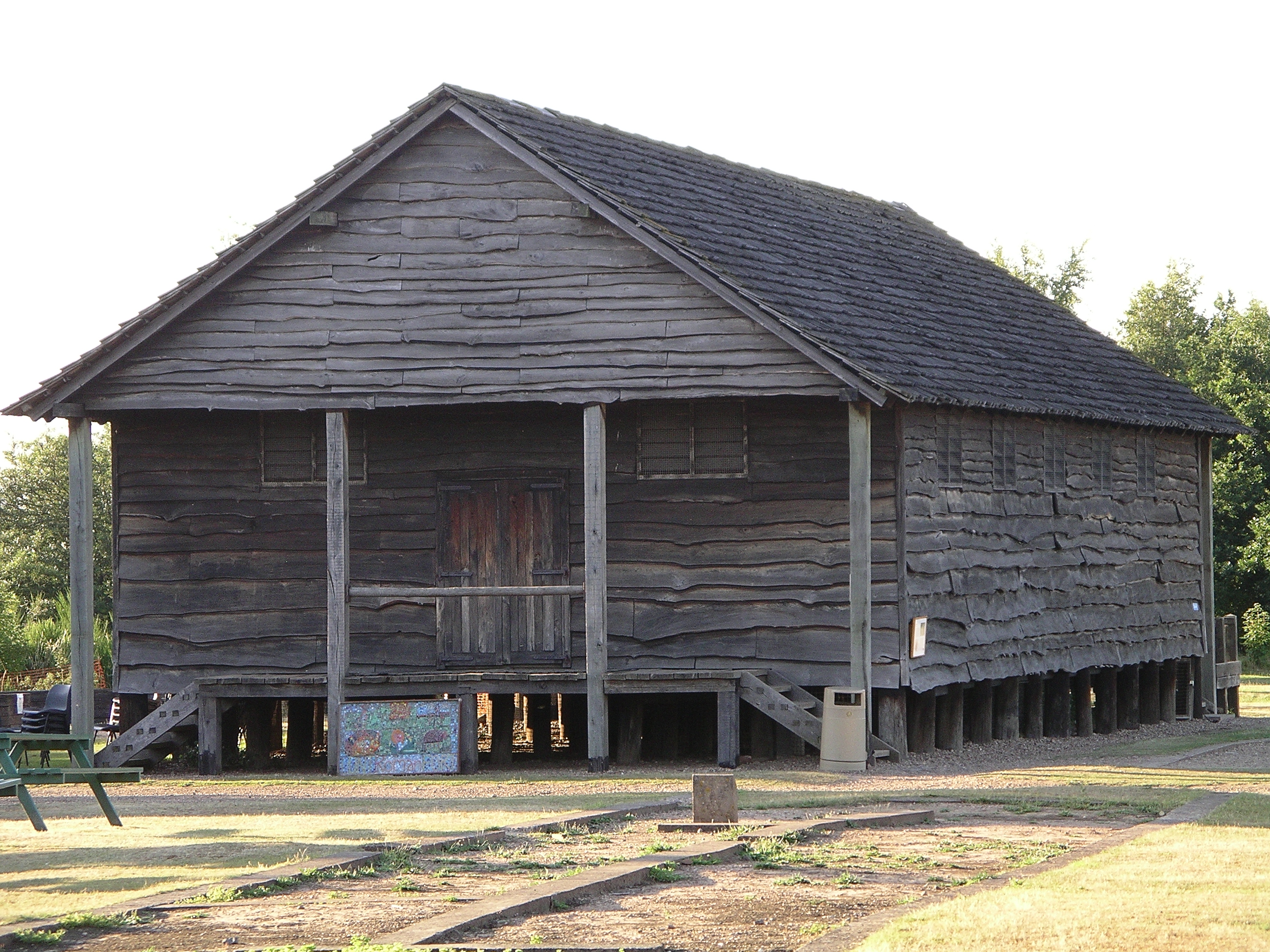 Photo taken by me of a reconstruction at the Lunt Fort site.